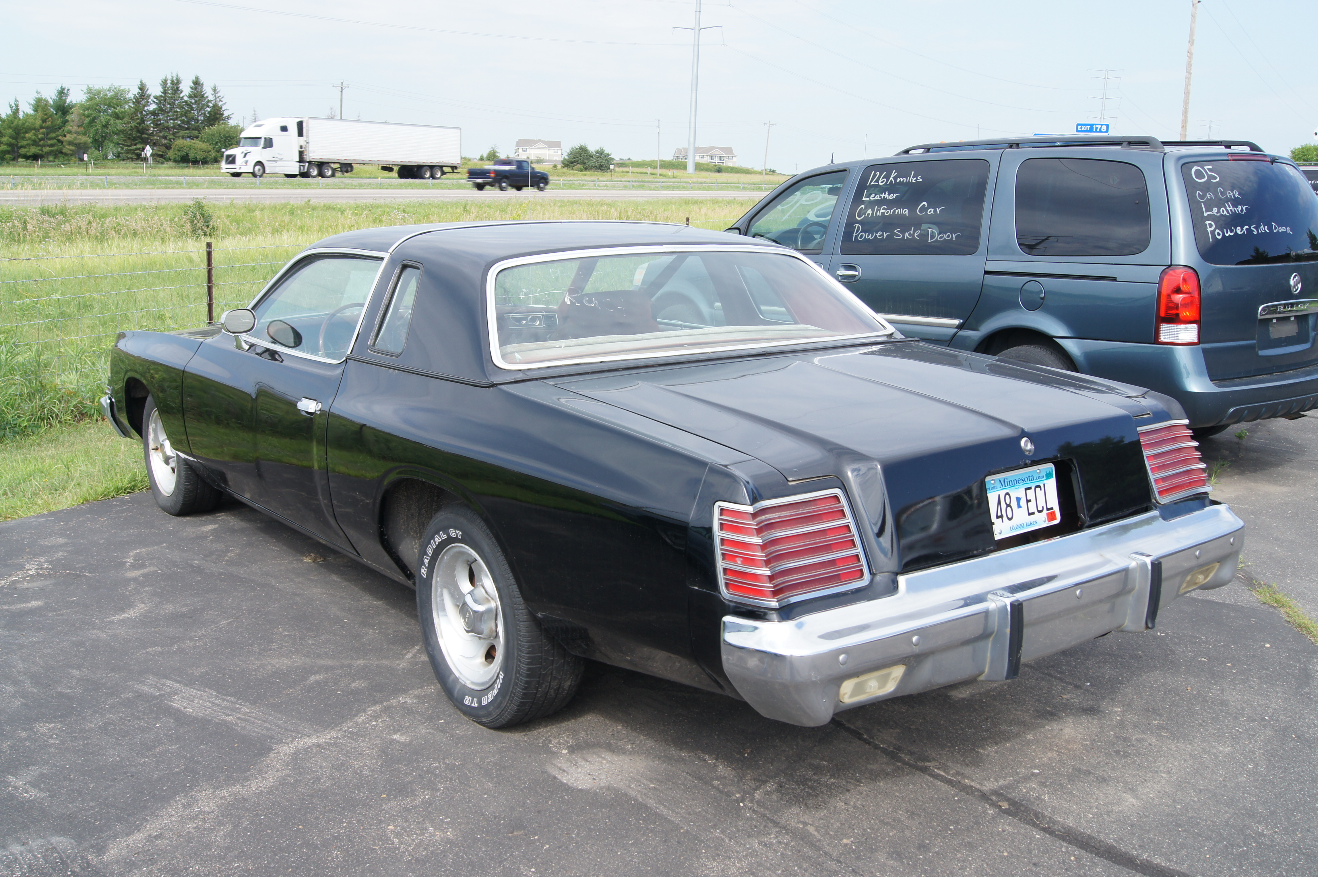 Sightings along the way back from the National Desoto Club & Walter P. Chrysler Club Convention.